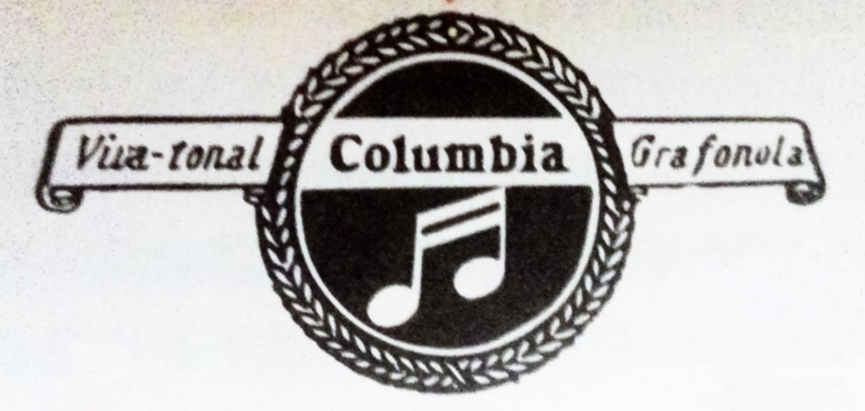 Logo of the 臺灣コロムビア(Taiwan Columbia)